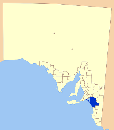 Modification of Astrokey44's original map found here: File:SA_LGA_blank.png Position of Coober pedy LGA